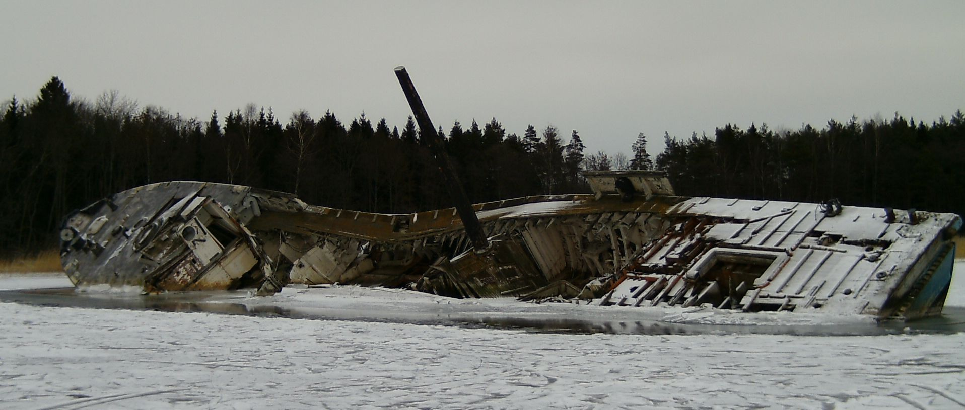 The wreck of former Swedish Navy minesweeper HMS Aspö (M63) in January 2009.